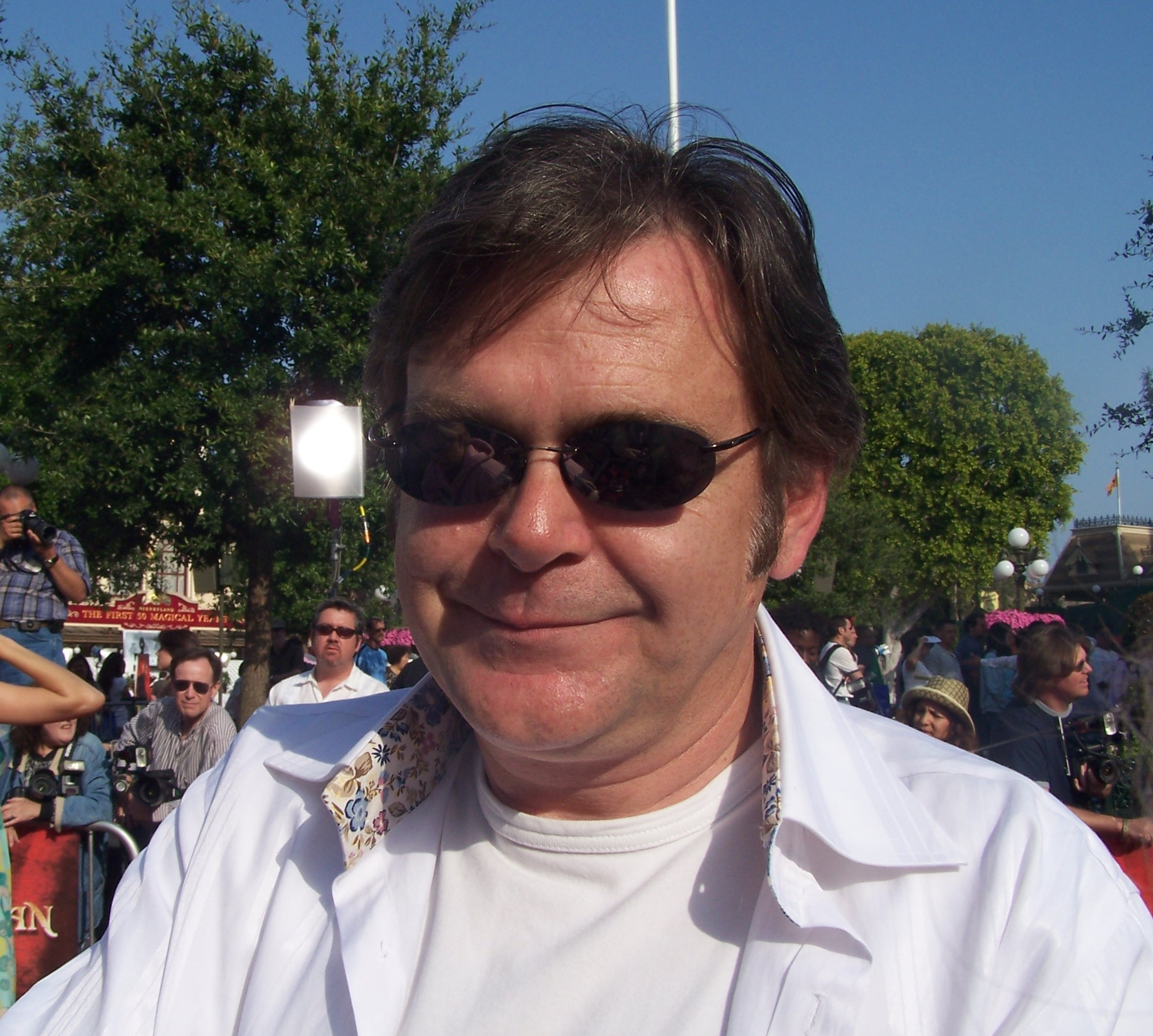 English actor Kevin McNally.